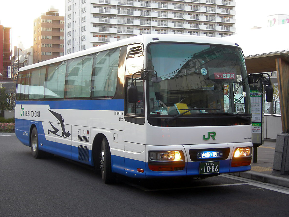 JR bus Tohoku Highwaybus Dream Masamune(Shinjuku,Tokyo - Sendai)